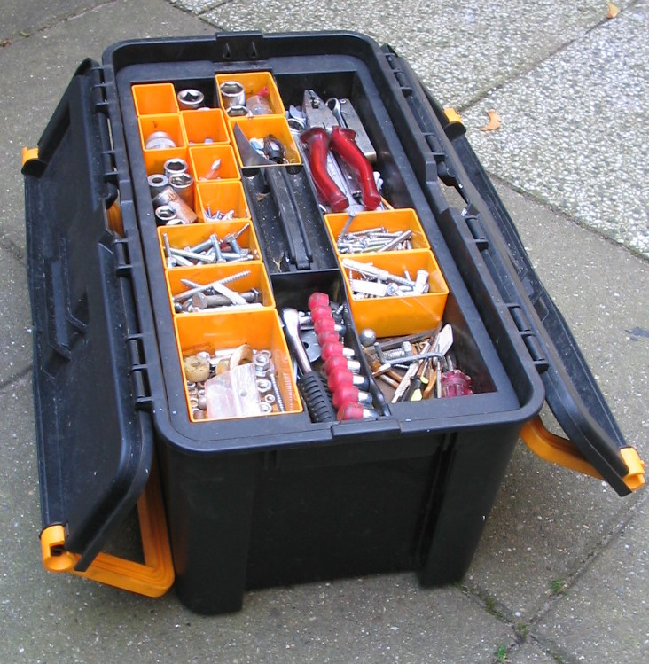 a toolbox